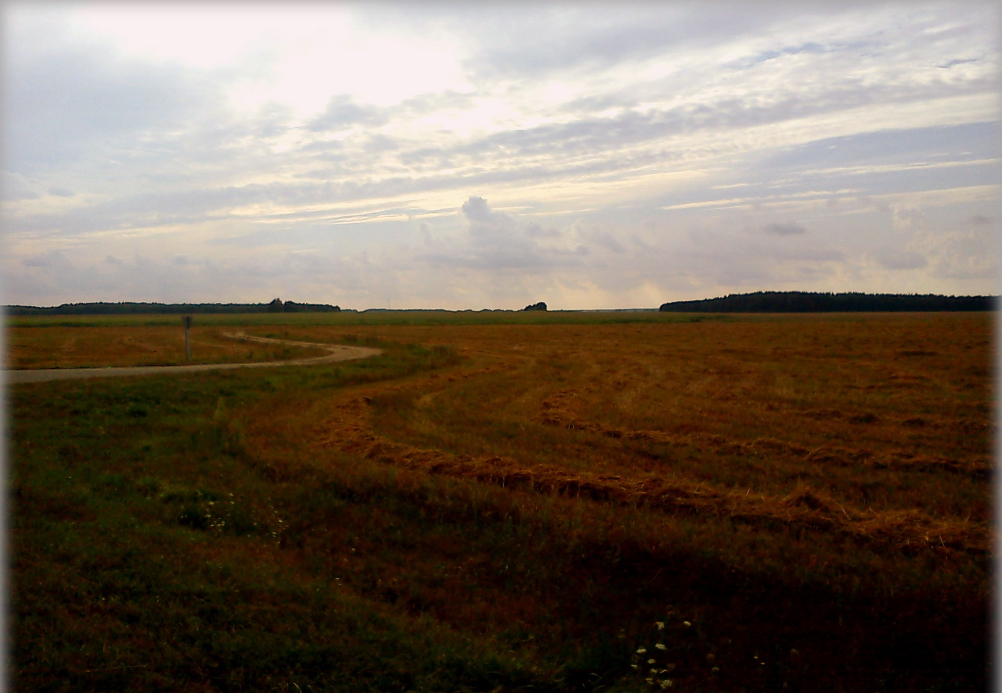 field near of the road Zhlobin - Svetlahorsk